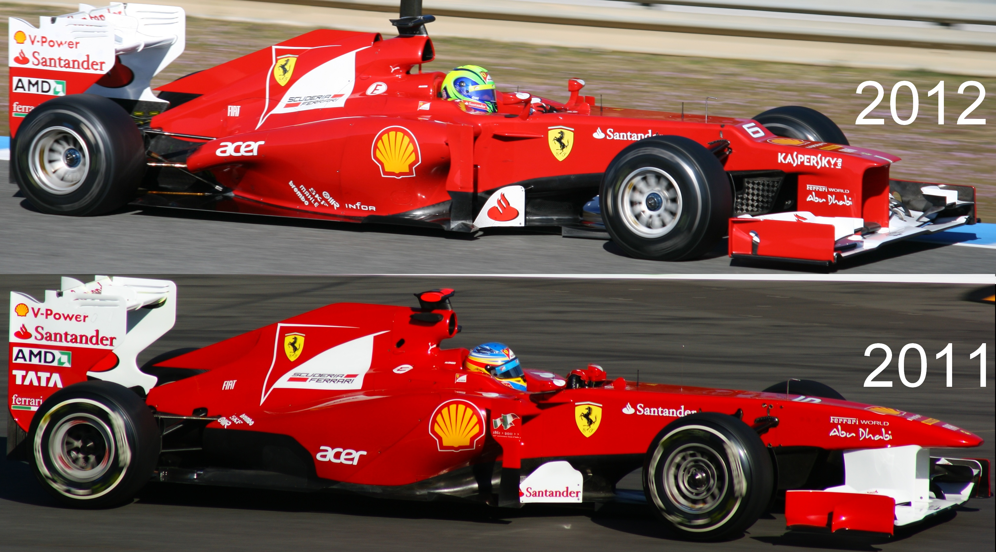 Comparison Ferrari F1 2011 and 2012 cars